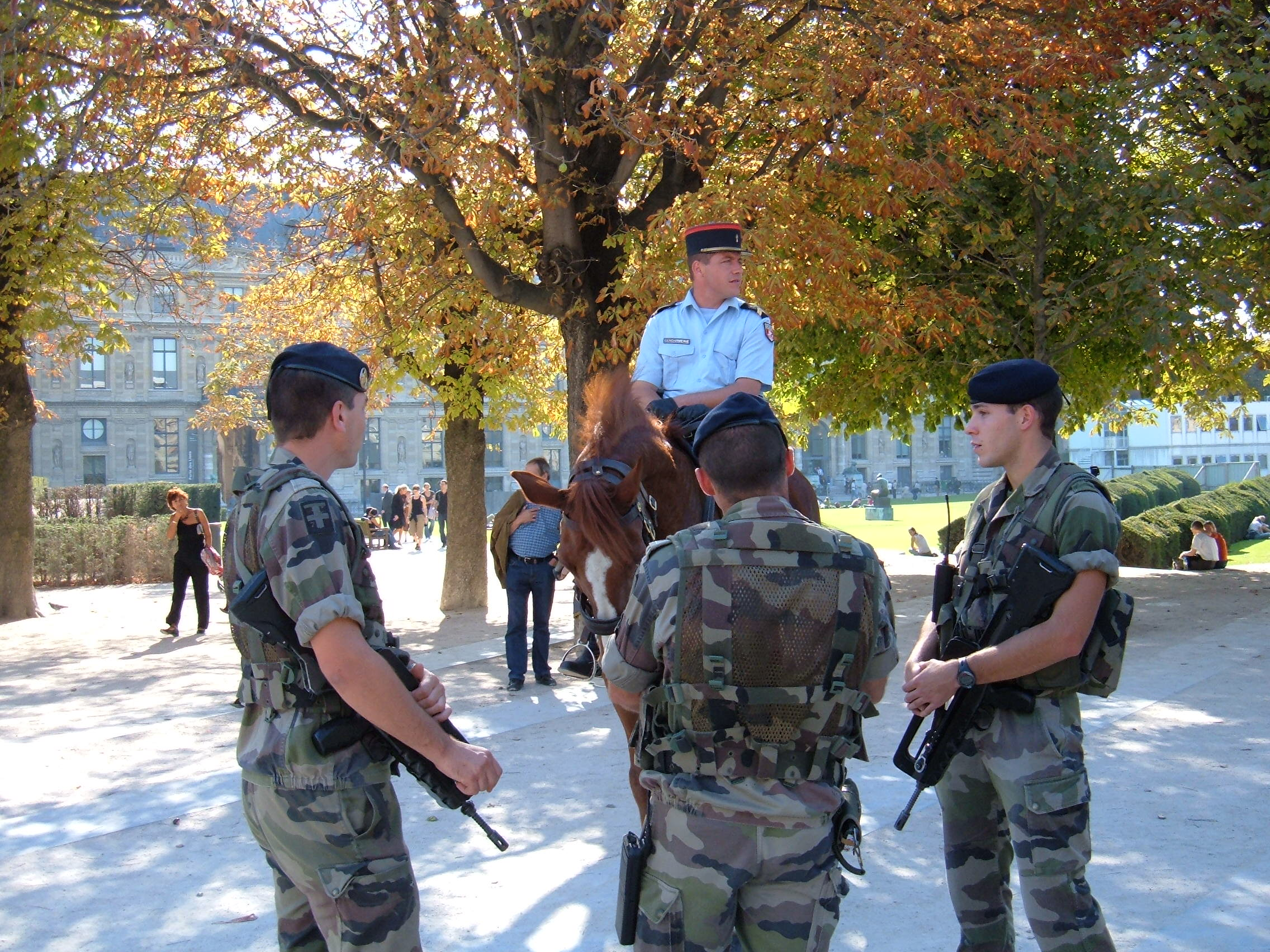 Vigipirate patrol. French soldiers and police in the Jardins du Carrousel in Paris.